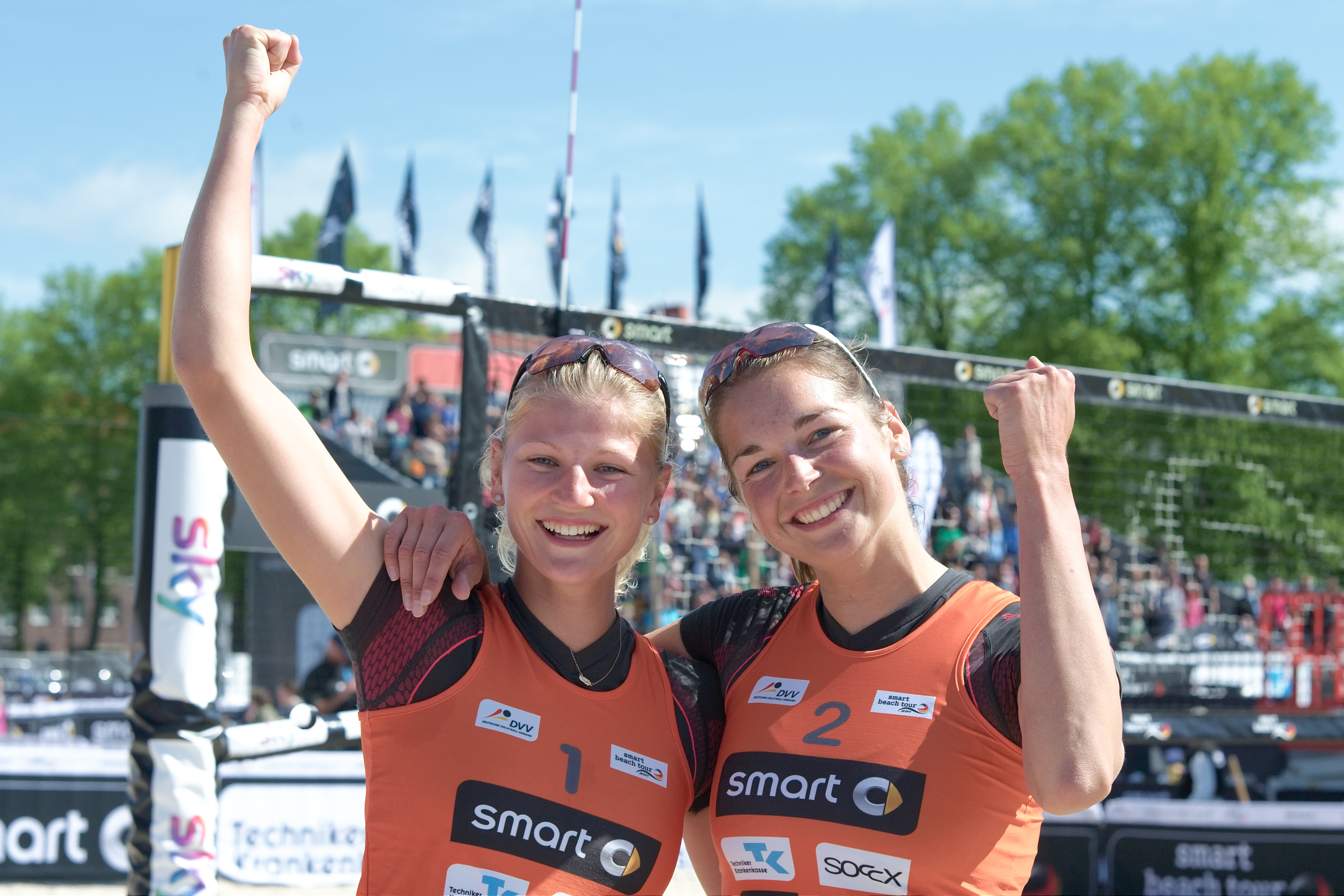 The German beach volleyball players Sandra Seyfferth (left) and Anni Schumacher (right) at the Smart Beach Tour tournament in Münster 2015.